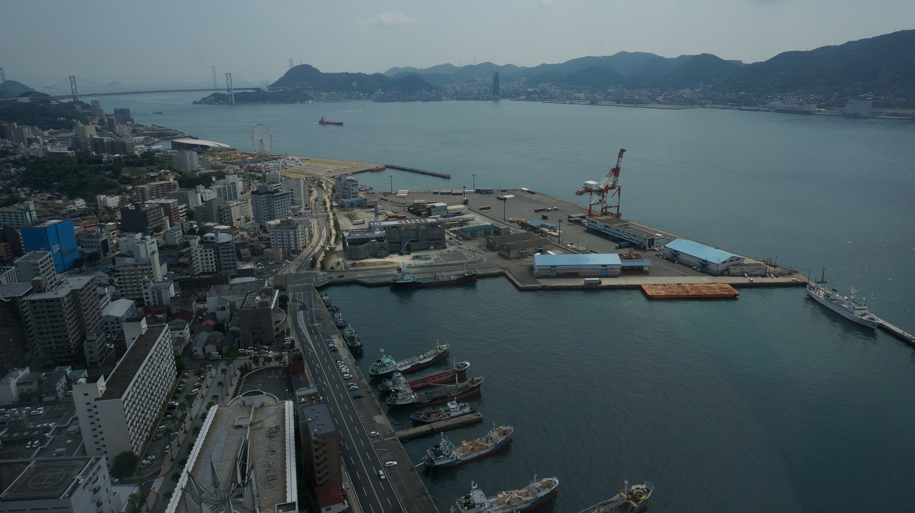 A view of Kanmon Straits from Kaikyo-Yume-Tower toward Hayatomoseto.